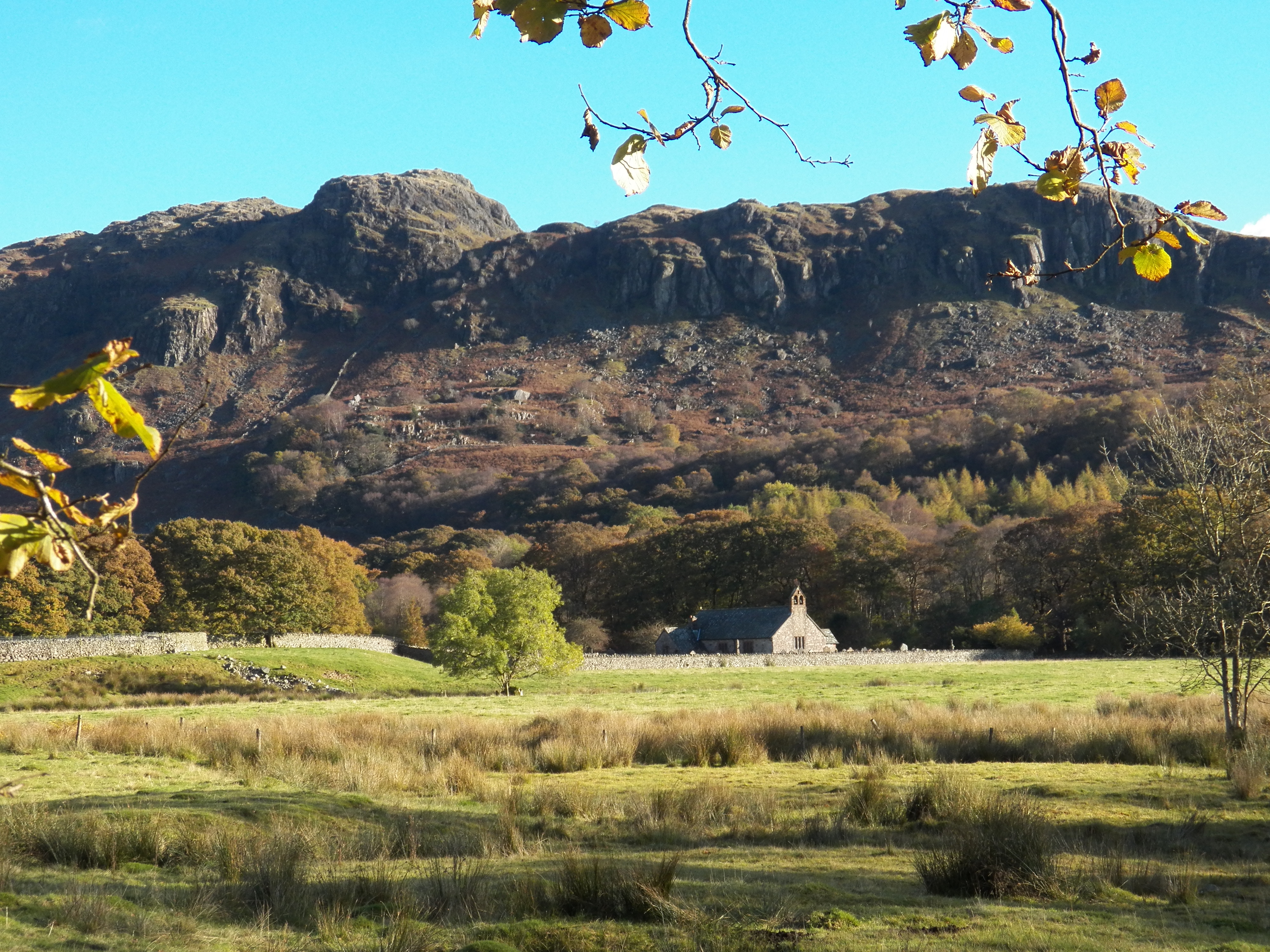 St Catherine's church seen across the valley in autumn